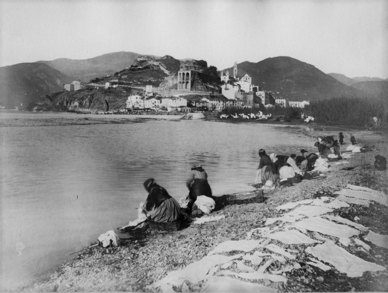 Alfred Noack (1833-1895) - "Ventimiglia. Vasherwomen".